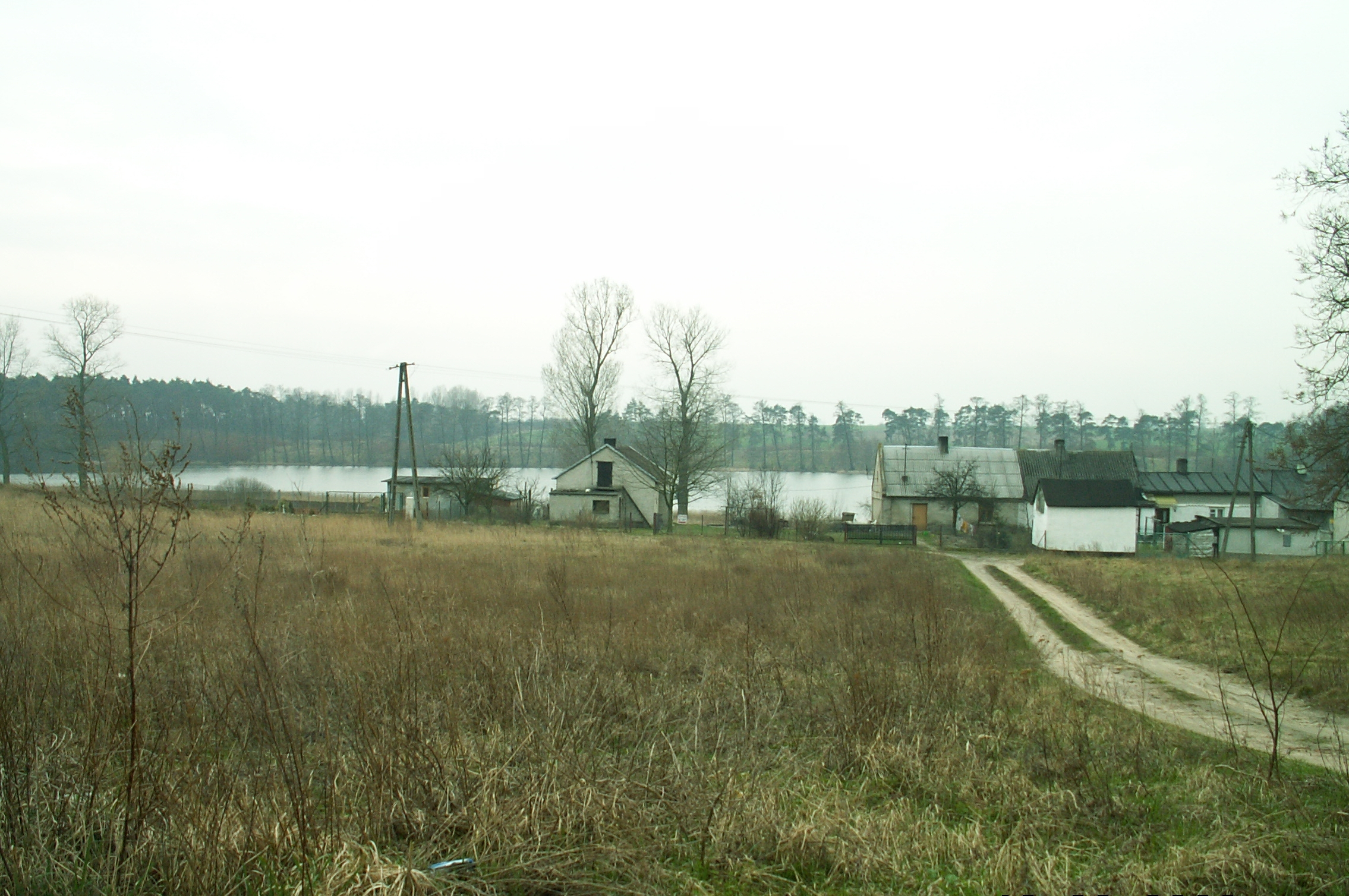 Jezioro Świesz - sight from village Bytoń side